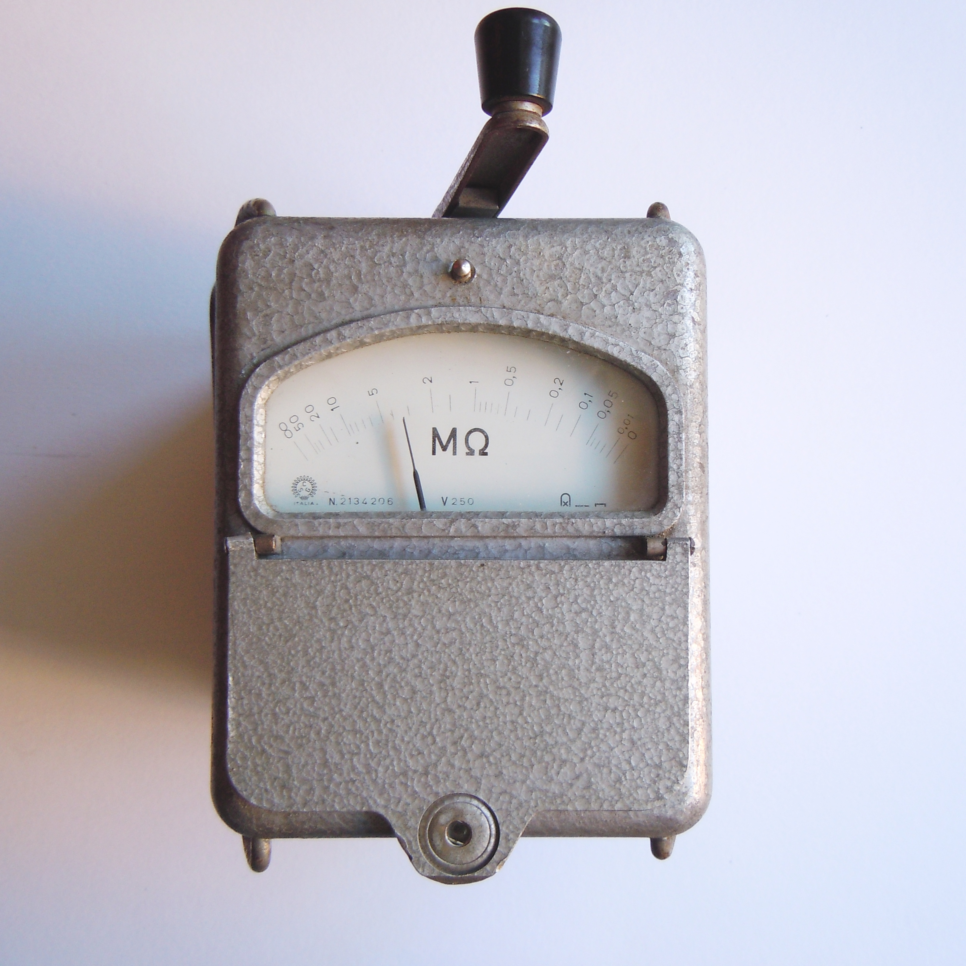 insulation meter that generates 250V.